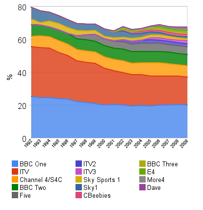 Area chart showing viewing share of UK channels since 1992 for channels with a viewing share above 1%. Data from BARB